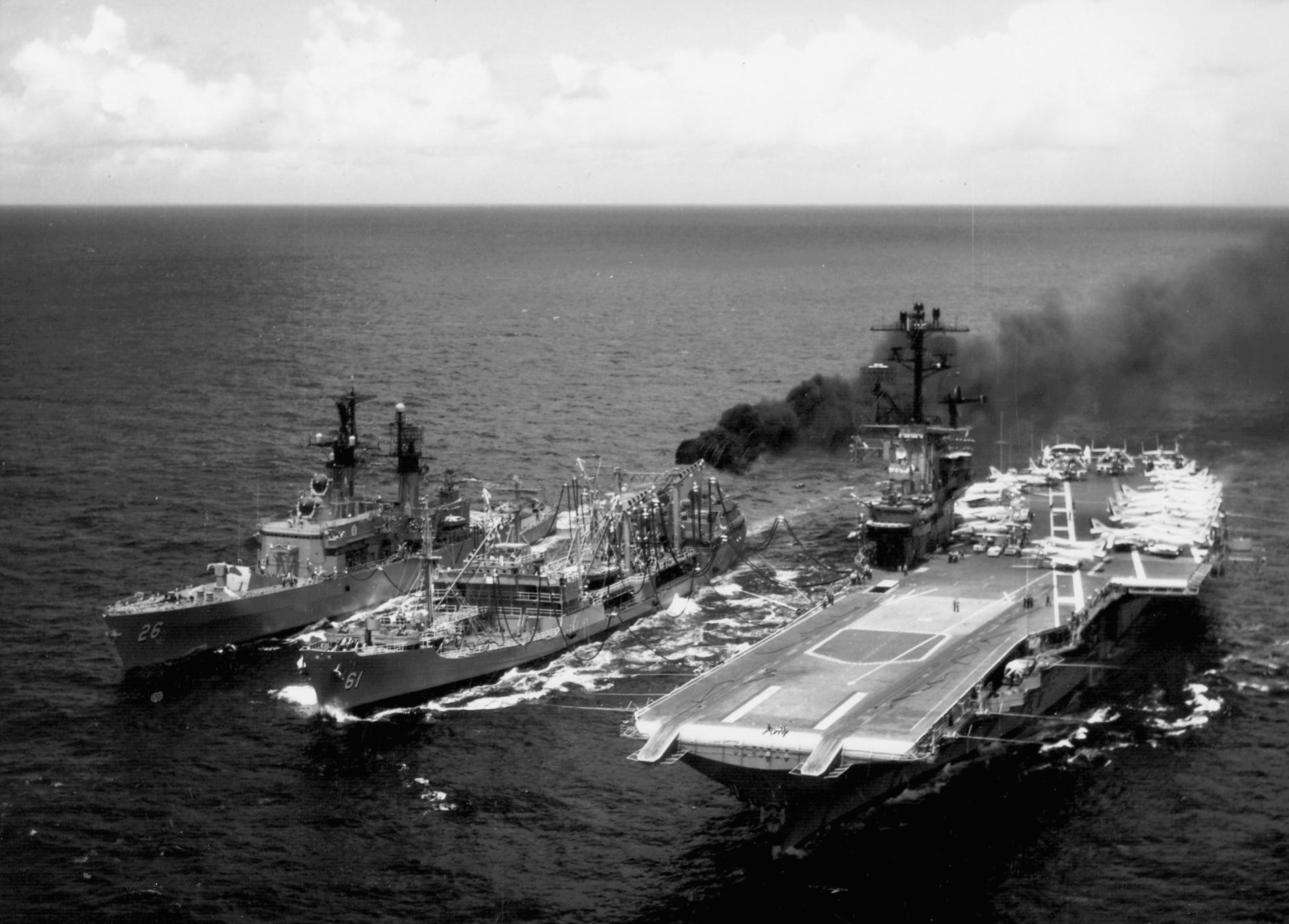 The U.S. Navy aircraft carrier USS Intrepid (CVS-11) and the guided missile cruiser USS Belknap (DLG-26) refuel from the oiler USS Severn (AO-61) in 1968. This photo was taken at the beginning of Intrepid's last deployment to Vietnam as an attack carrier, from 4 June 1968 to 8 February 1969.